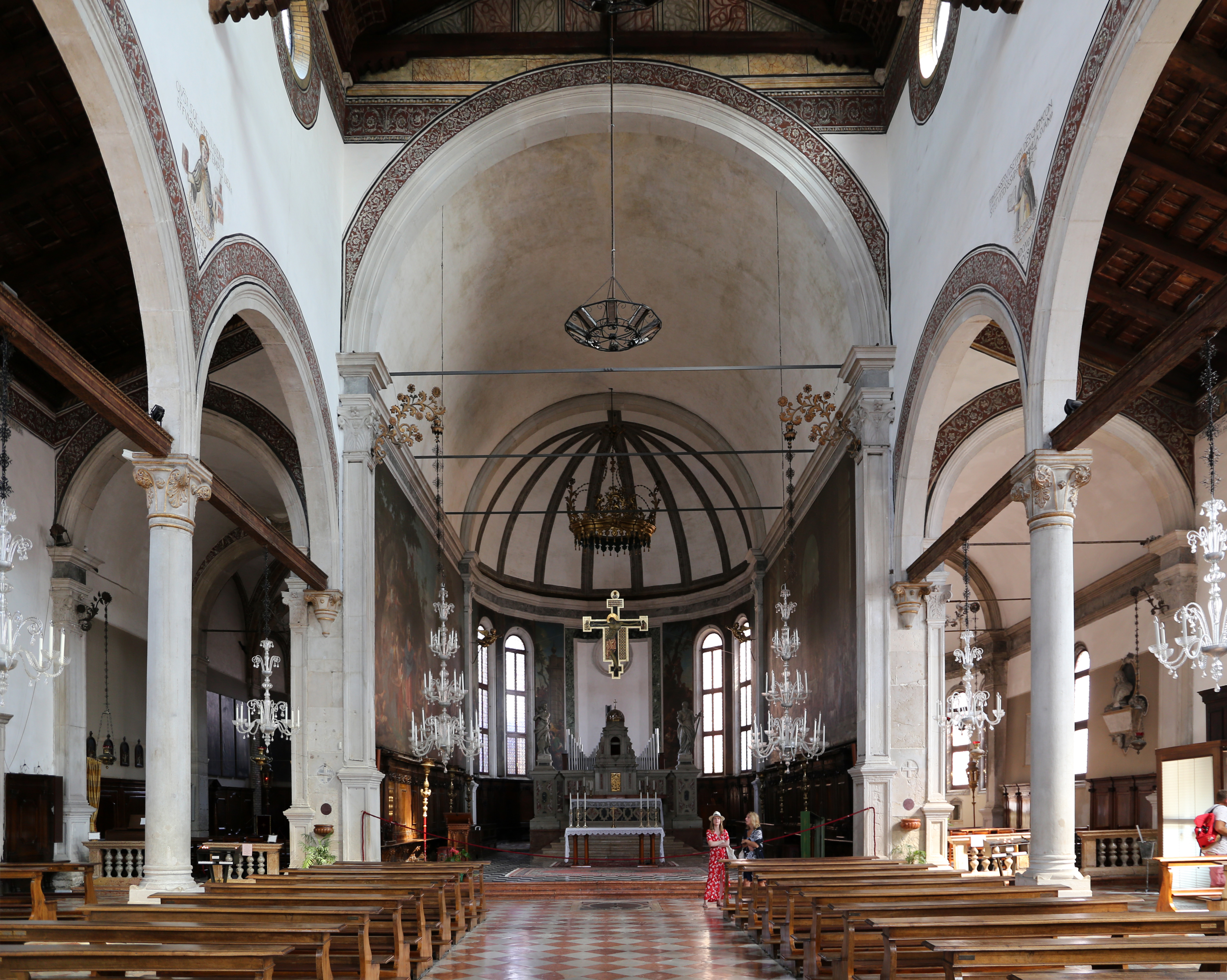 San Pietro Martire (Murano) - Interior